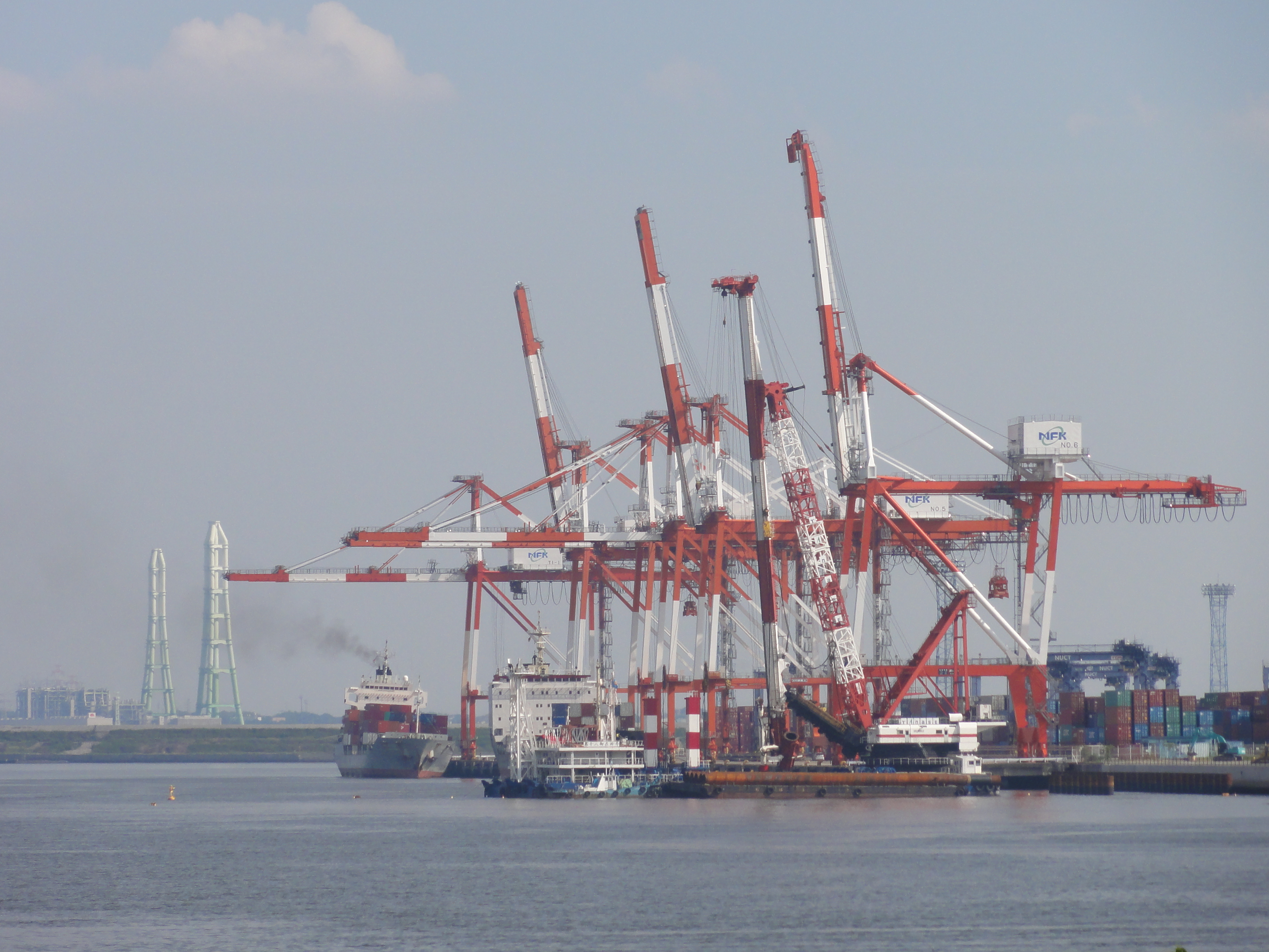 Nabeta wharf in Nagoya port,Aichi Pref., Japan